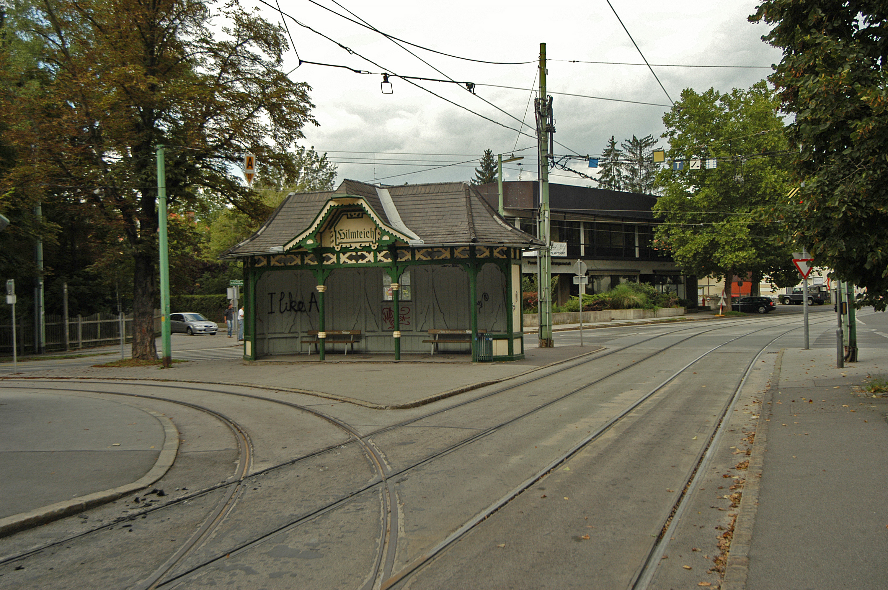 Please report references to kulacgmx.at. Object location47° 05′ 00.93″ N, 15° 27′ 35.39″ E